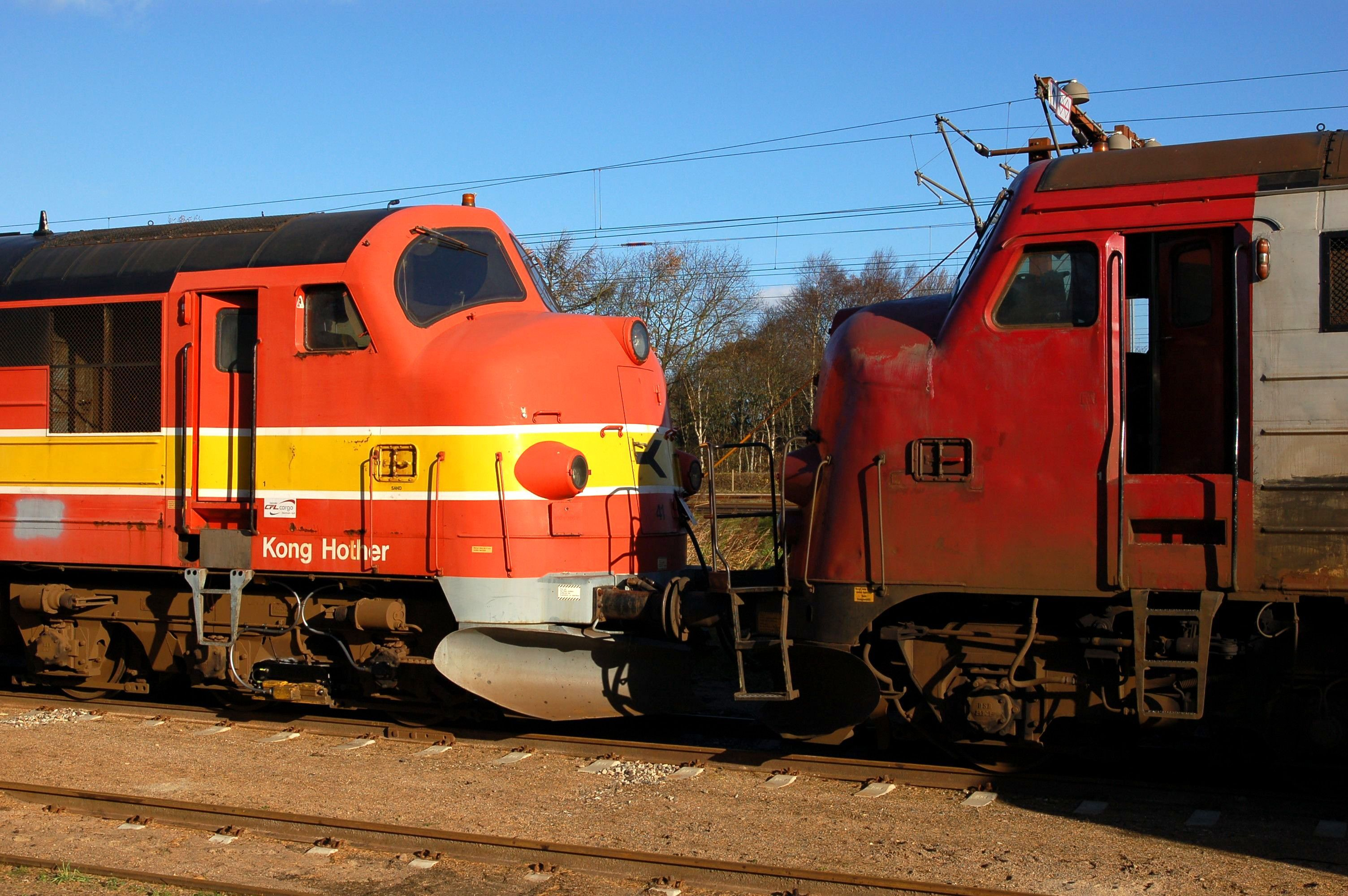 NoHAB locomotives in Padborg, Denmark